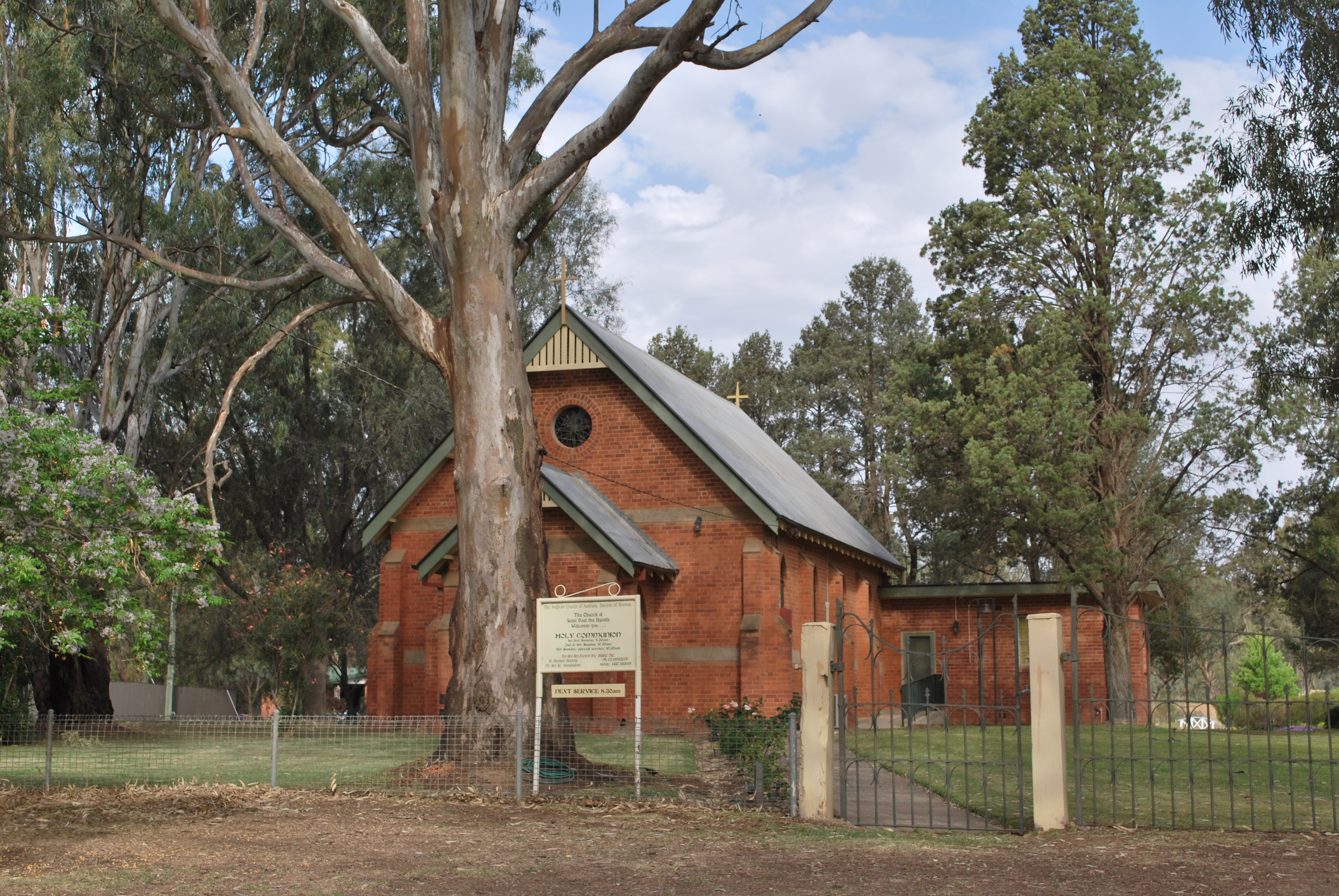 St Paul the Apostle Anglican church at Darlington Point, New South Wales